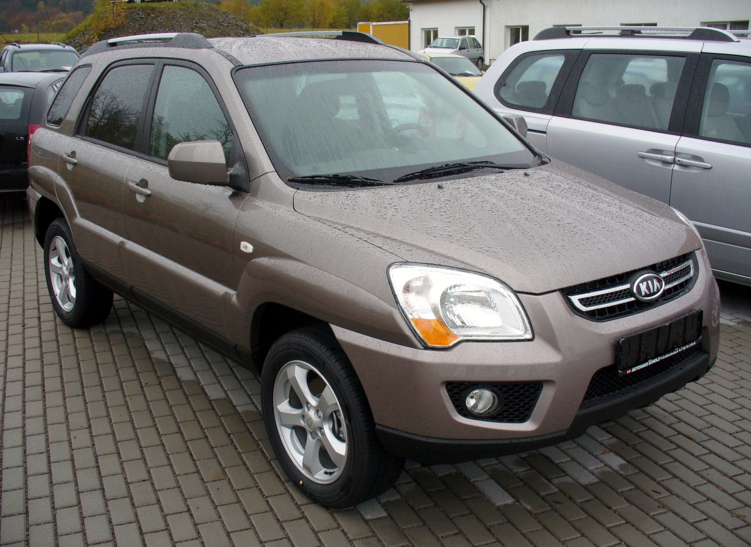 Kia Sportage MJ 2009